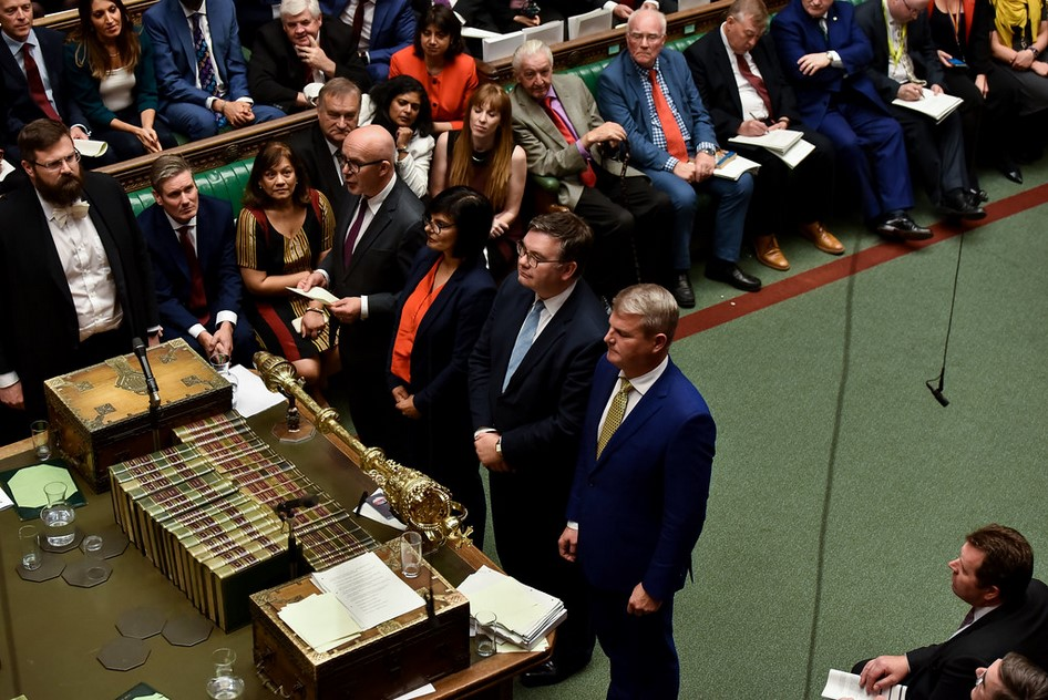 Tellers in the House of Commons announce the result of the division on the Second Letwin Amendment